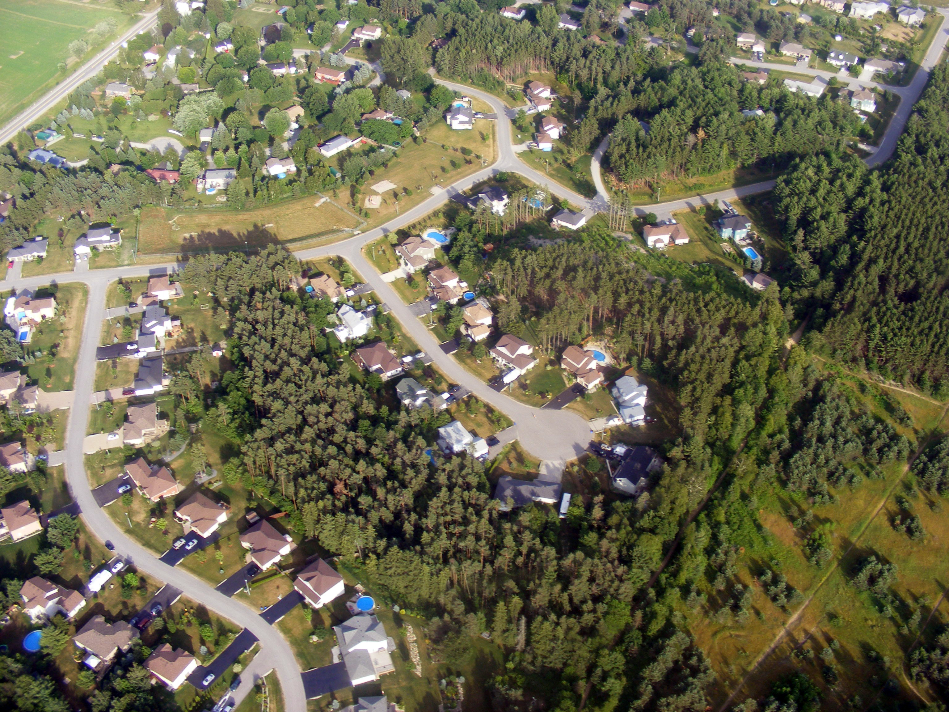 Aerial photo of a portion of Hillsdale, Ontario, Canada.